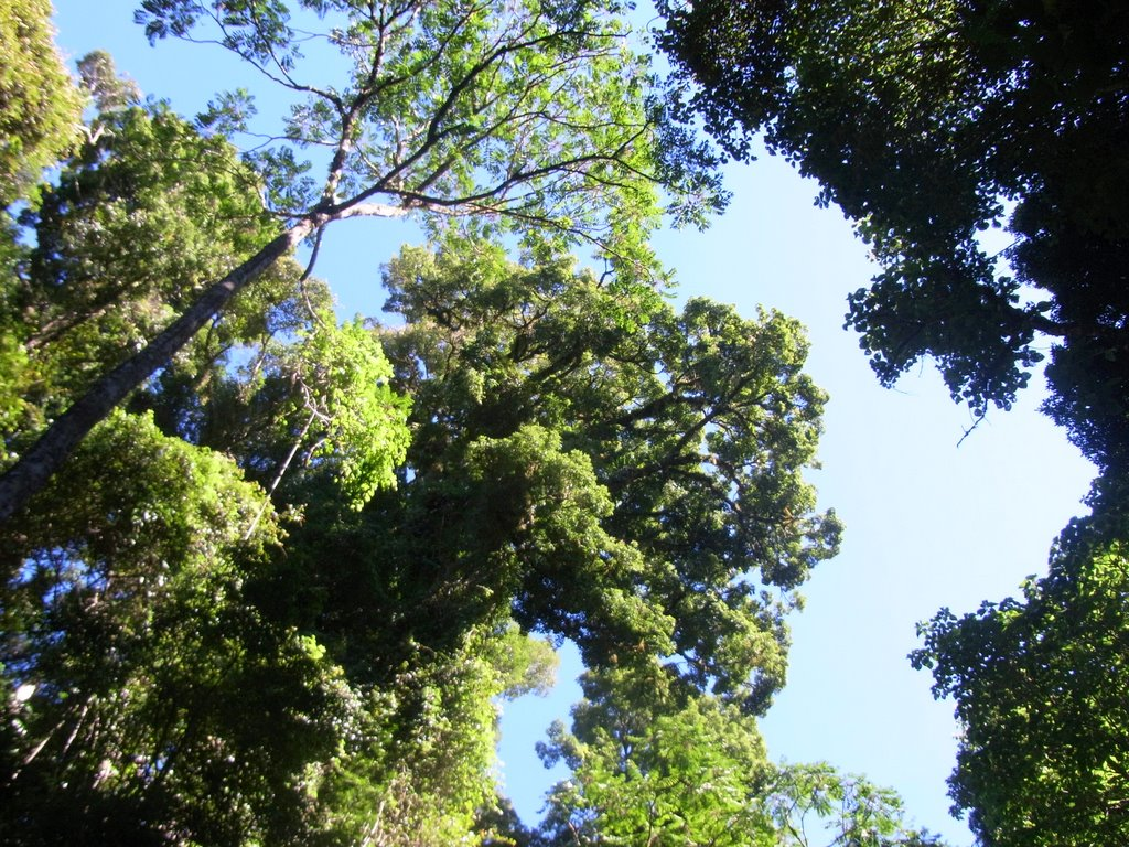 League Scrub sub tropical rainforest, near Bowraville NSW, Australia